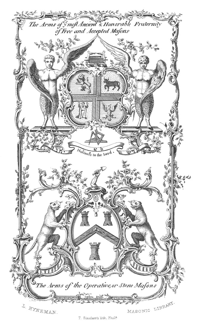 The Arms of ye most Ancient & Honorable Fraternity of Free and Accepted Masons" and "The Arms of the Operative or Stone Masons" illustrated in L. Hyneman, Masonic Library